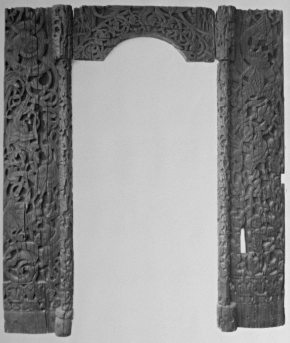 Portal from the old stave church Ulekjørka. Previously used as a dorway to a storage hous at the farm Åsen, in Sør-Aurdal